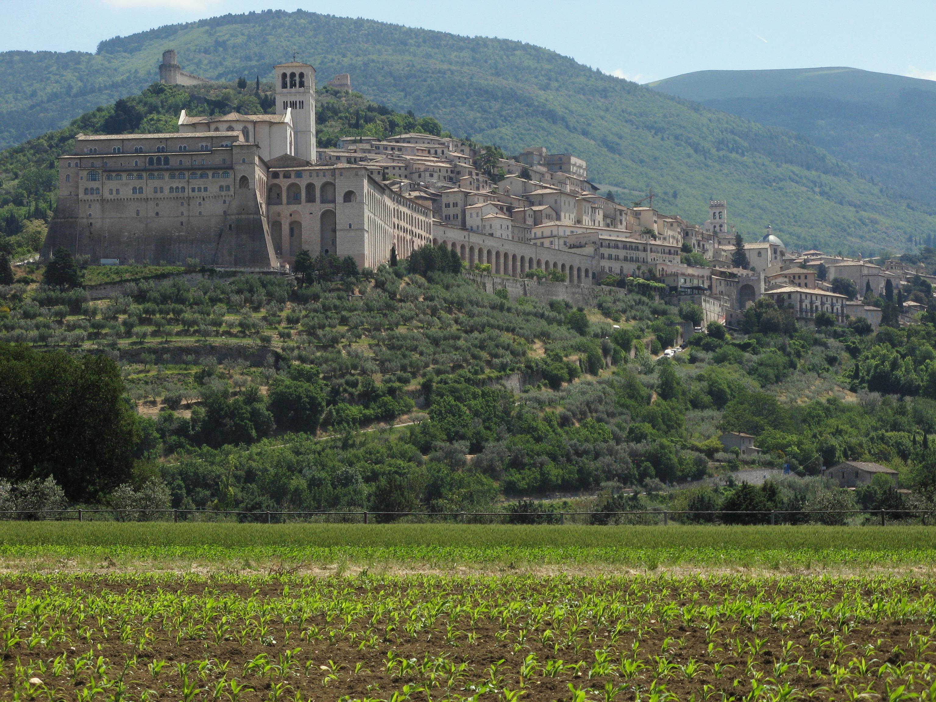 The Italian town of Assisi seen from North